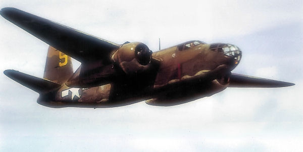 British Boston III (Douglas A-20 Havoc) used by the 8th Air Force Headquarters staff at Bovingdon Airfield, England Source: US Army Air Forces via National Archives via Roger Freeman: The Mighty Eighth, The Colour Record, 1991